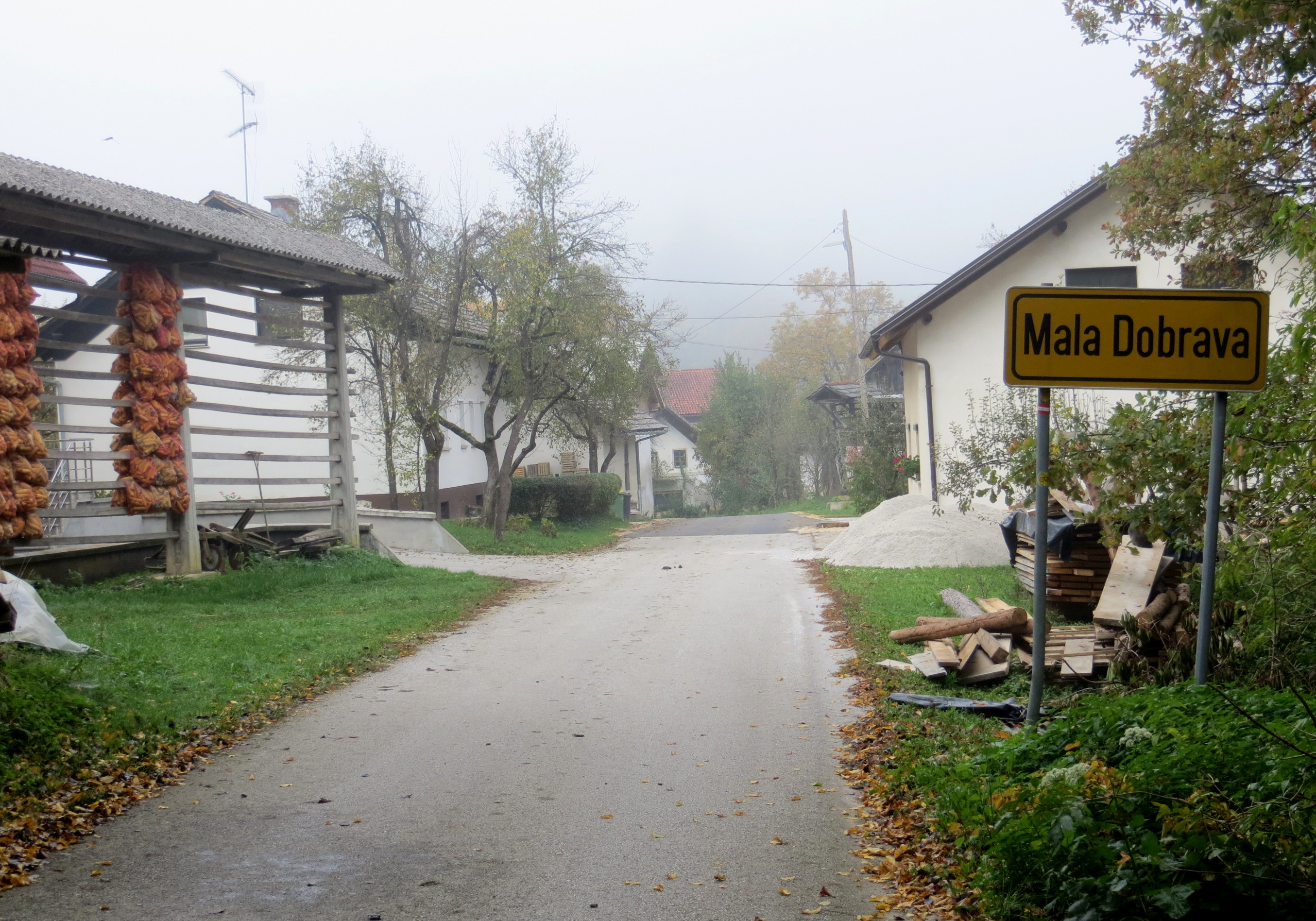 Mala Dobrava, Municipality of Ivančna Gorica, Slovenia